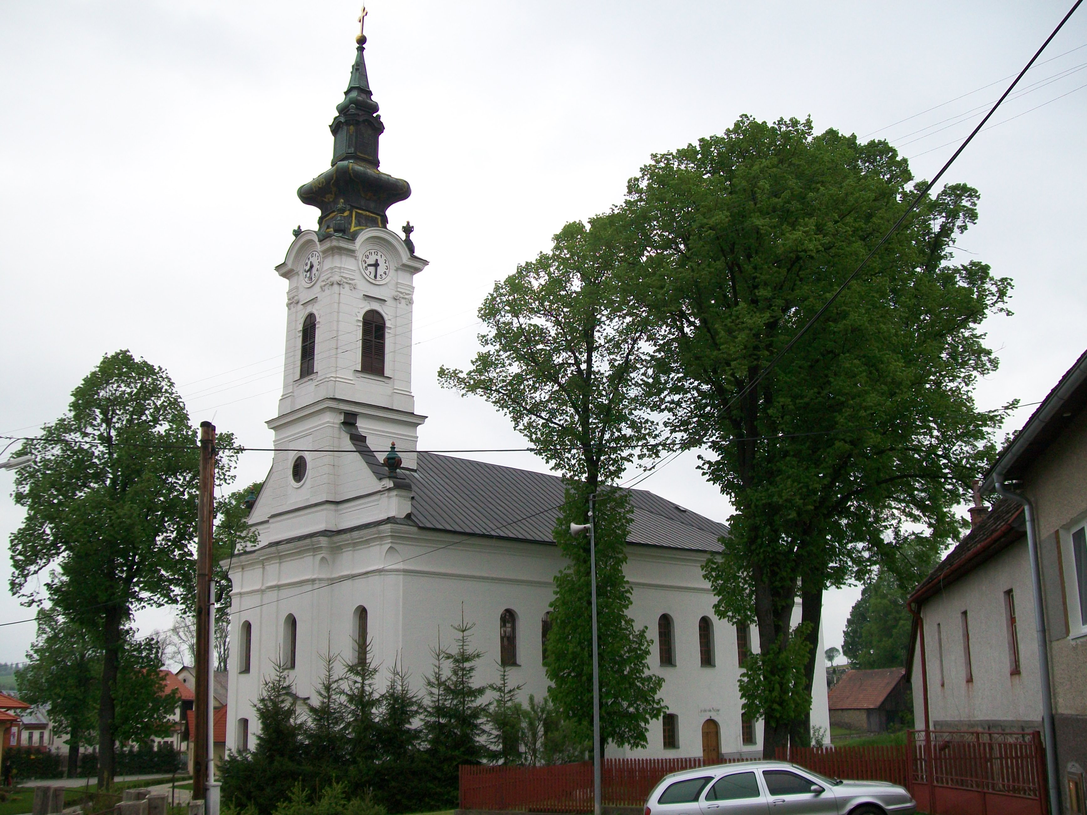 Lutheran Church in Hybe (Slovakia)